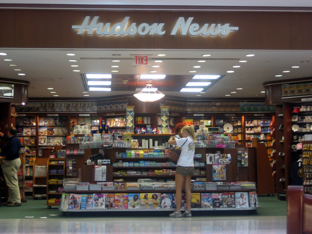 A Hudson News store in 2006.